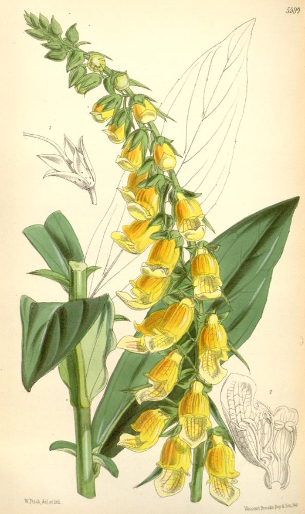 Illustration of Digitalis laevigata